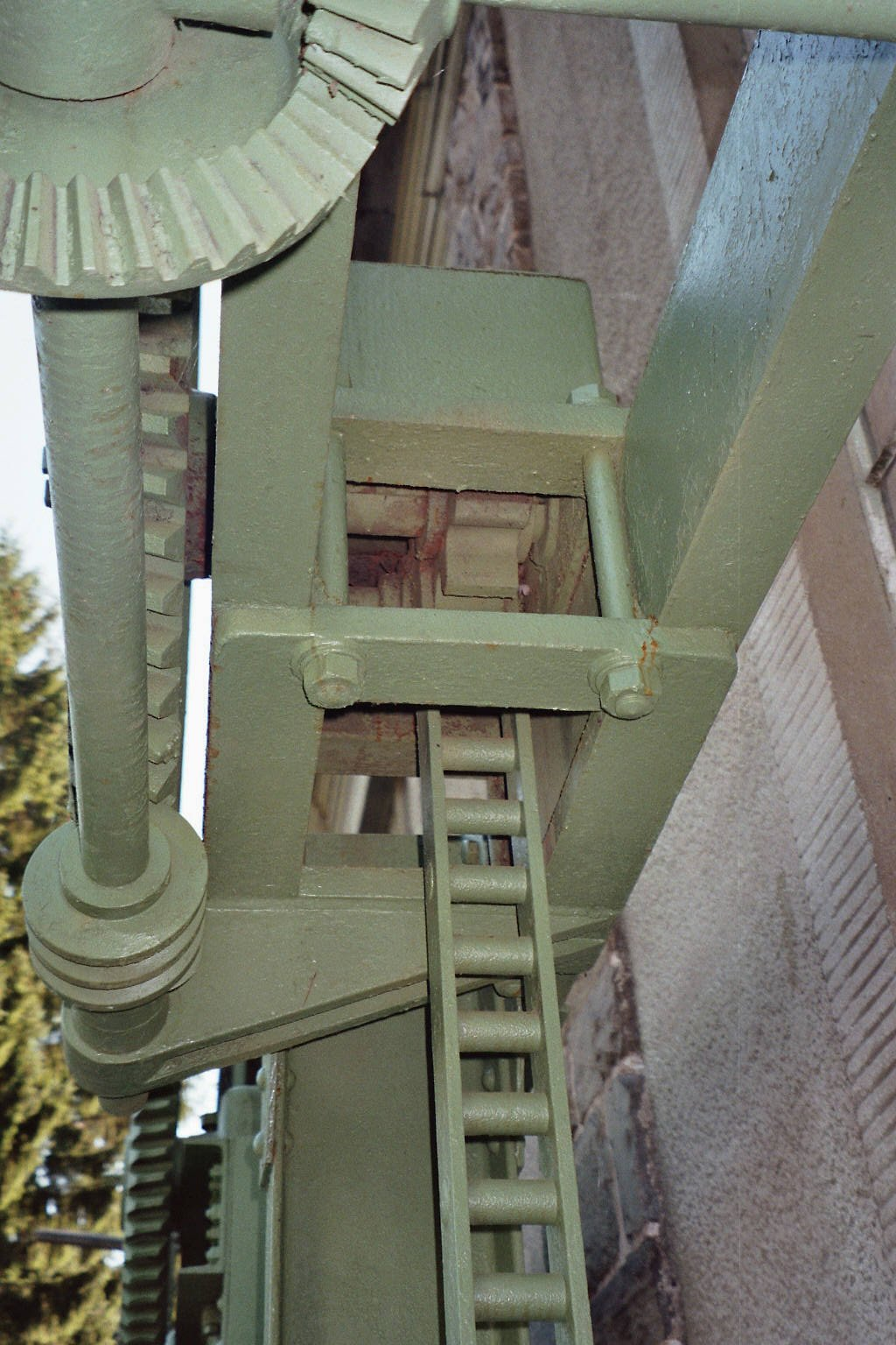 A rack with a pin gearing of weir mechanism of a water power plant